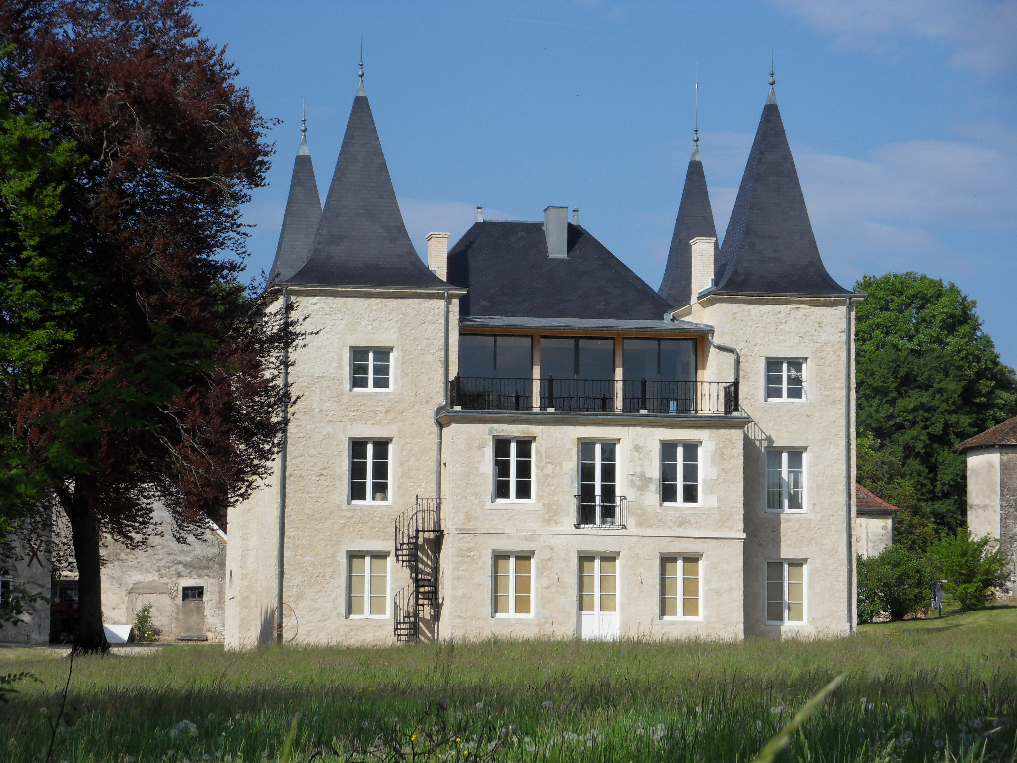 Noiron, (Haute-Saône) France.